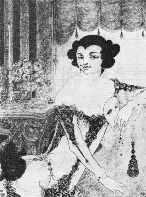 Published in "History of Dancing from the Earliest Ages to the Our Times" (1898), but only in 35 de luxe copies. Depicts Roman actress Arbuscula.